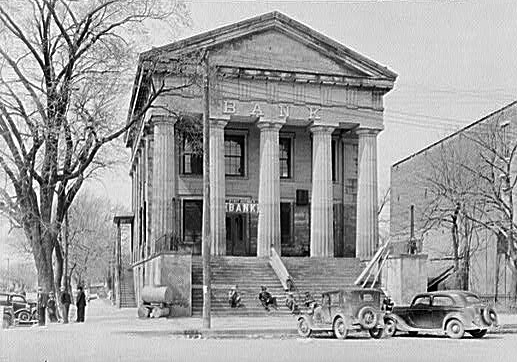 Bank in Shawneetown, Illinois, built by state in 1839. Note water tank (for drinking water purposes) on sidewalk, left. From a collection of Depression-era photos made for the Farm Security Administration. Photographs show easternmost Illinois city on the Ohio River, an important port, banking, and salt producing center in early days. The river, formerly the greatest source of wealth, in January, 1937, completely inundated the cup-like site of the town, resulting in the present devastation. Paddle-wheelers, ferry, levee and flood gauge. Mayor and committee members with petitions to move the town. Buildings of historic interest. Main street, residential section. Portraits. Lee, Russell, 1903-1986 photographer. CREATED/PUBLISHED 1937 Apr. NOTES Title and other information from caption card. Transfer; United States. Office of War Information. Overseas Picture Division. Washington Division; 1944. SUBJECTS Small towns--Illinois Safety film negatives. United States--Illinois--Gallatin County--Shawneetown. MEDIUM 1 negative : safety ; 5 x 7 inches or smaller. CALL NUMBER LC-USF341- 010680-B REPRODUCTION NUMBER LC-USF341-T-010680-B DLC (interpositive) PART OF Farm Security Administration - Office of War Information Photograph Collection REPOSITORY Library of Congress Prints and Photographs Division Washington, DC 20540 USA DIGITAL ID (intermediary roll film) fsa 8c51240 Work of a US Government agency.